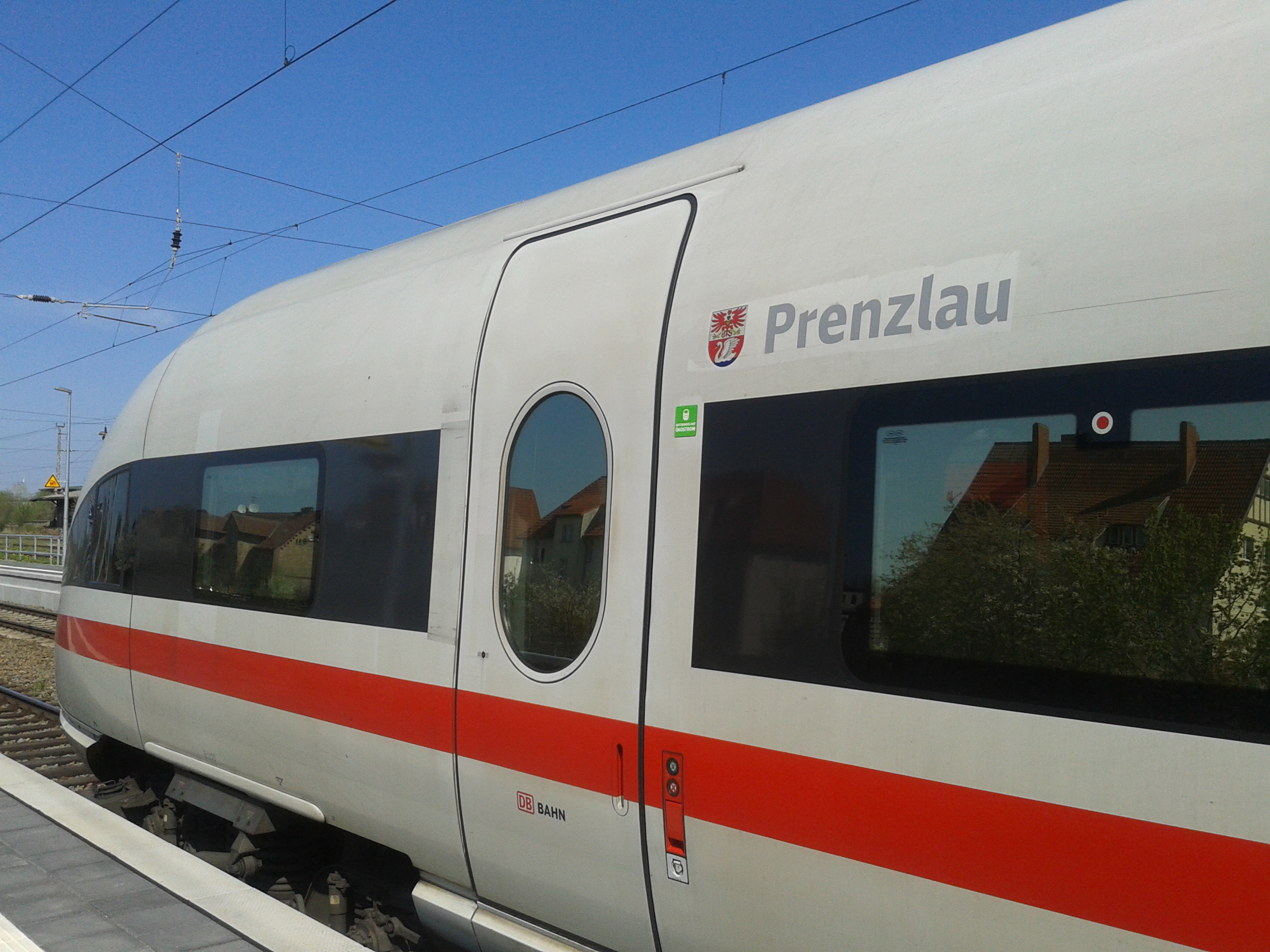 ICE T Tz 1170 "Prenzlau"